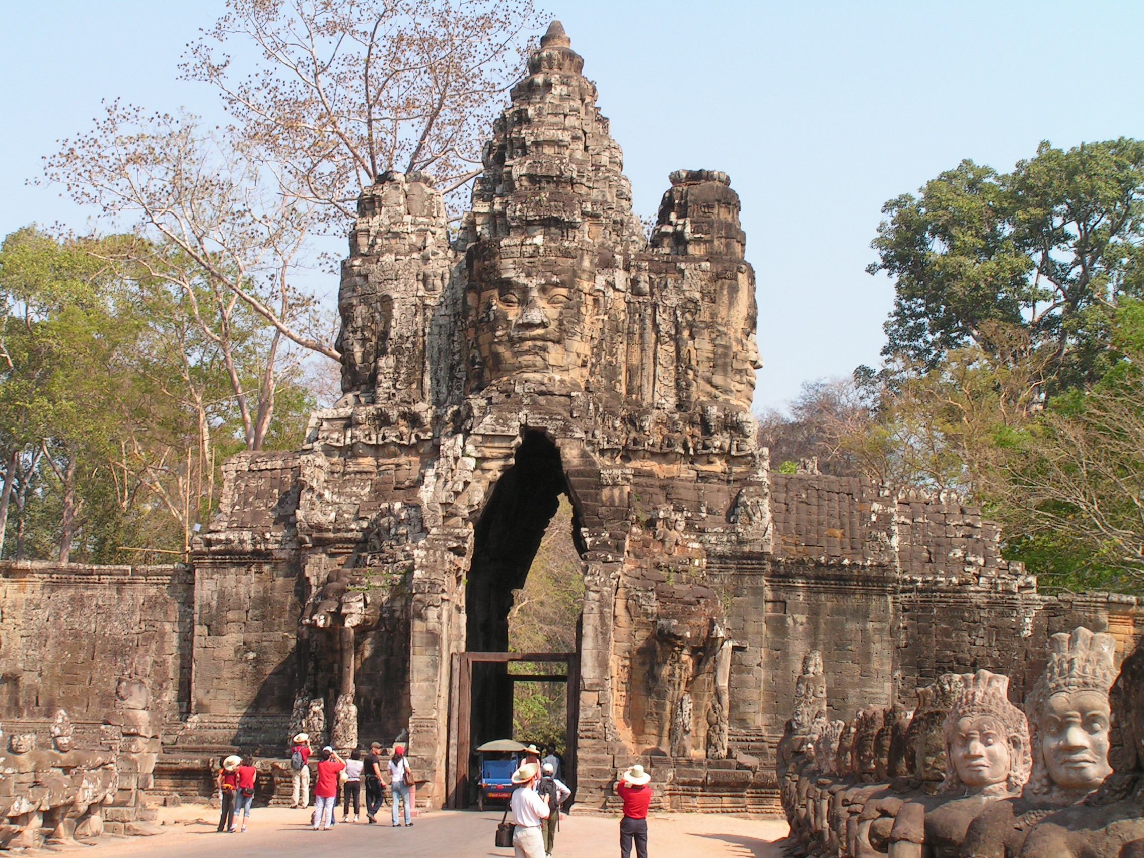 This is the South Gate, not one of the two eastern gates of Angkor Thom.